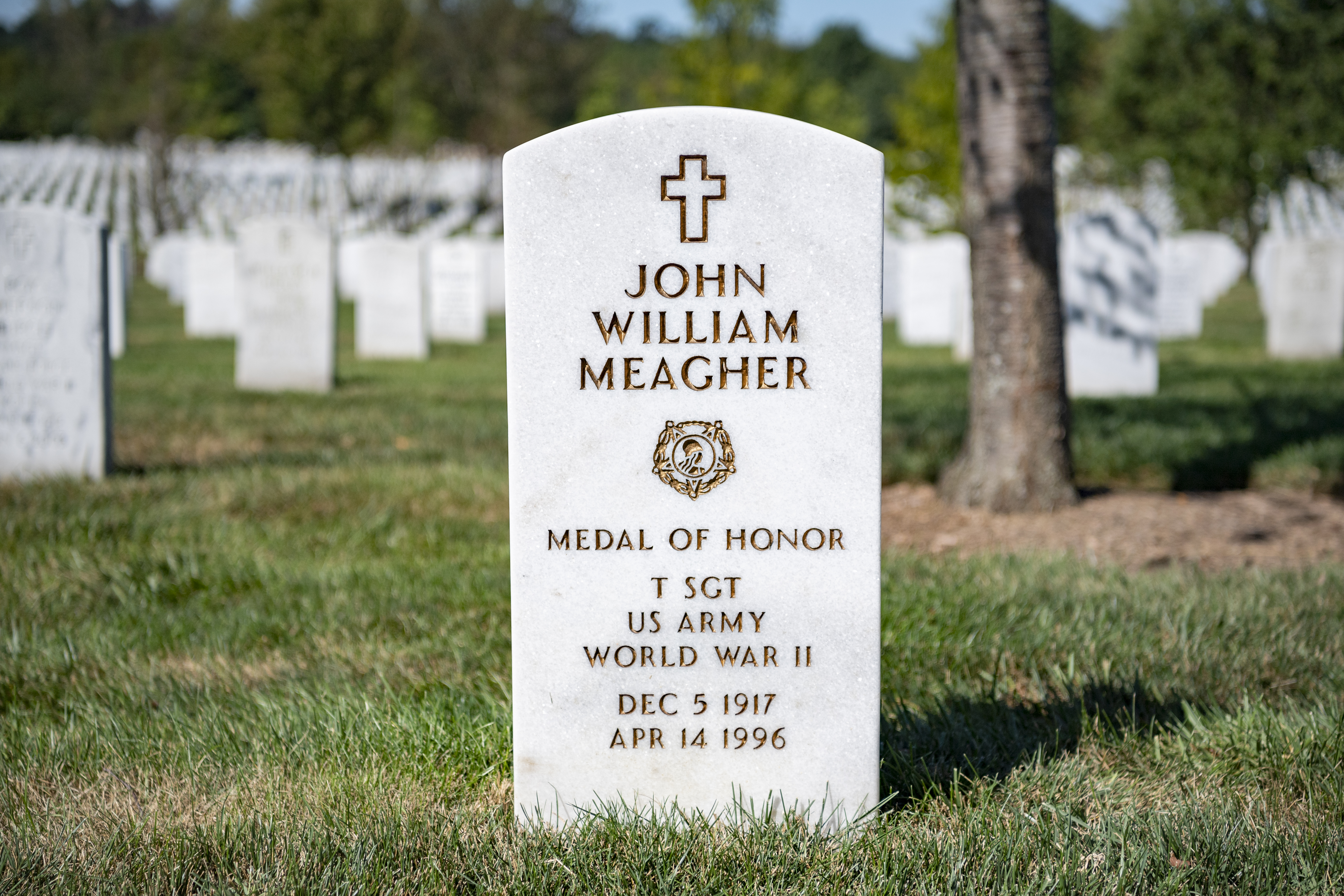 Headstone of U.S. Army Tech Sgt. John William Meagher, Medal of Honor Recipient, in Section 64 of Arlington National Cemetery, Arlington, Virginia, Aug. 30, 2019. (U.S. Army photo by Elizabeth Fraser / Arlington National Cemetery / released)